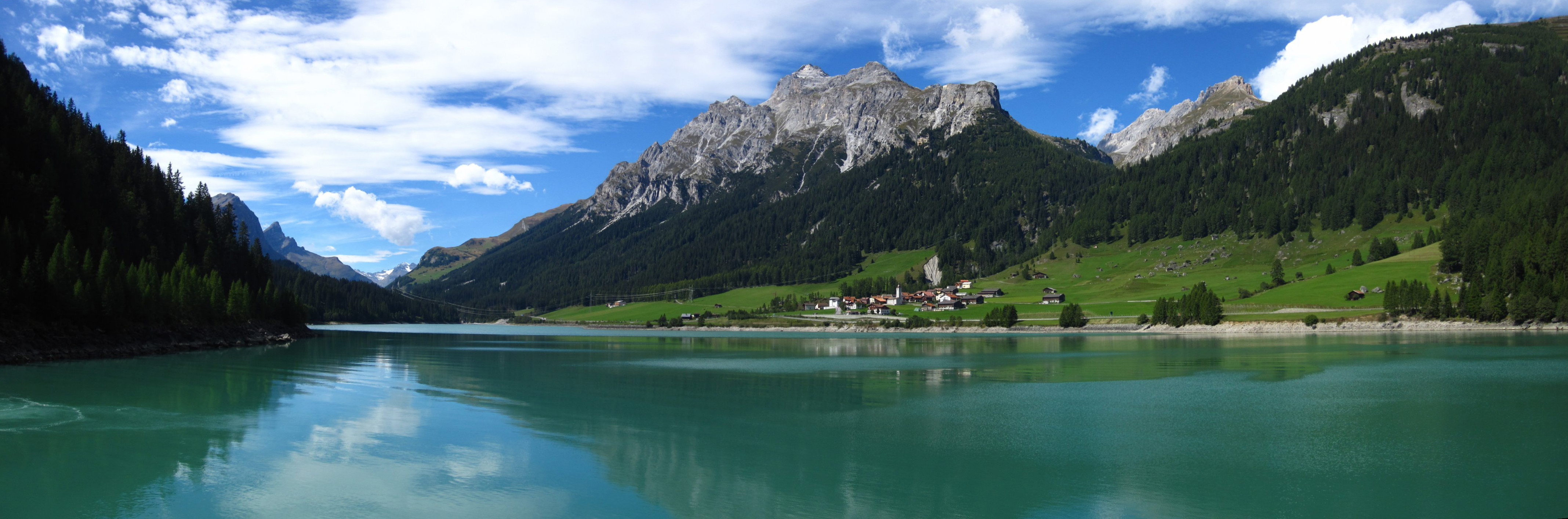 Panoramical view of Sufner Lake and Sufers village in the Swiss canton of Graubünden.